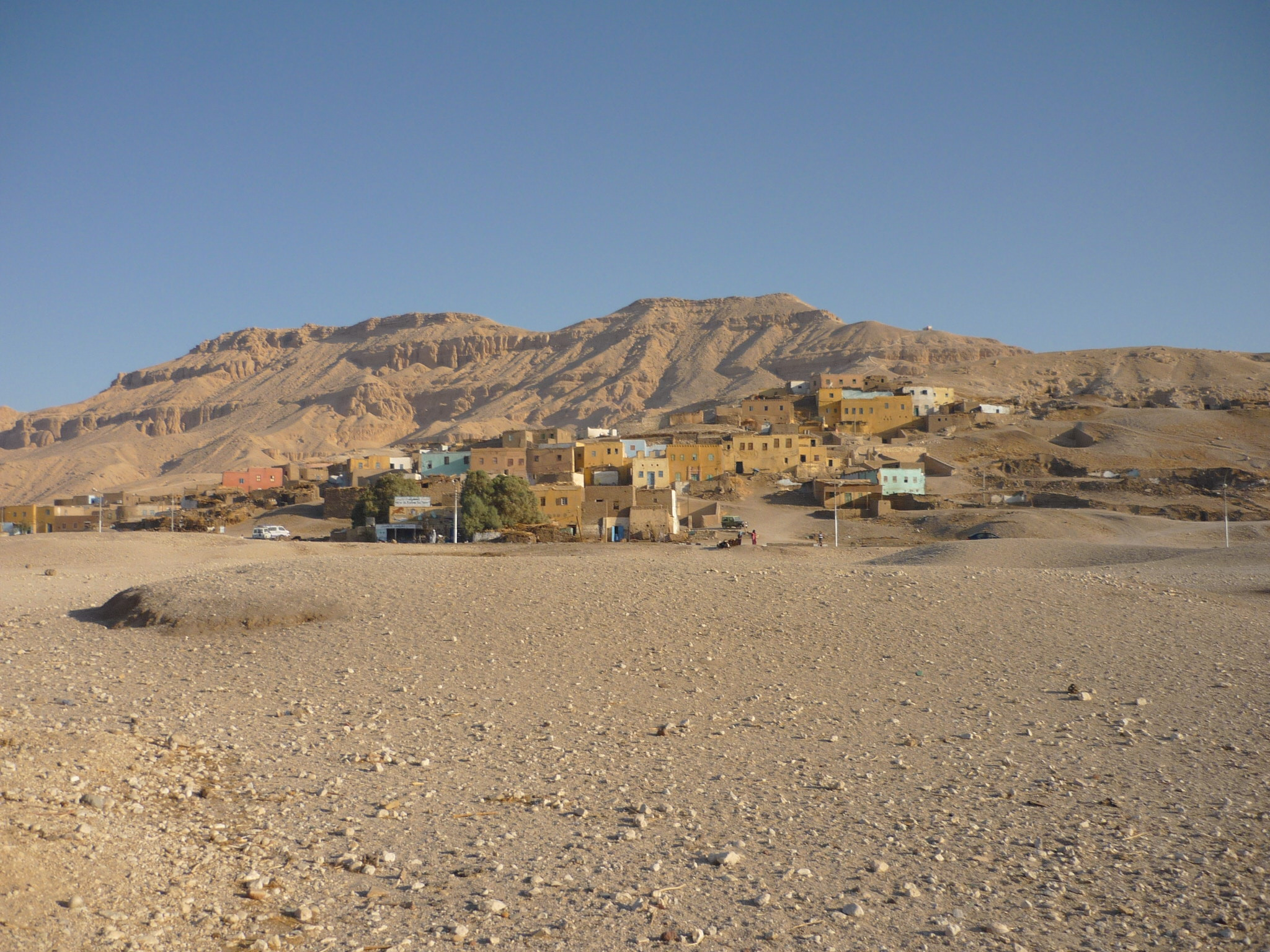 Old Qurna and Al-Qurn, Egypt